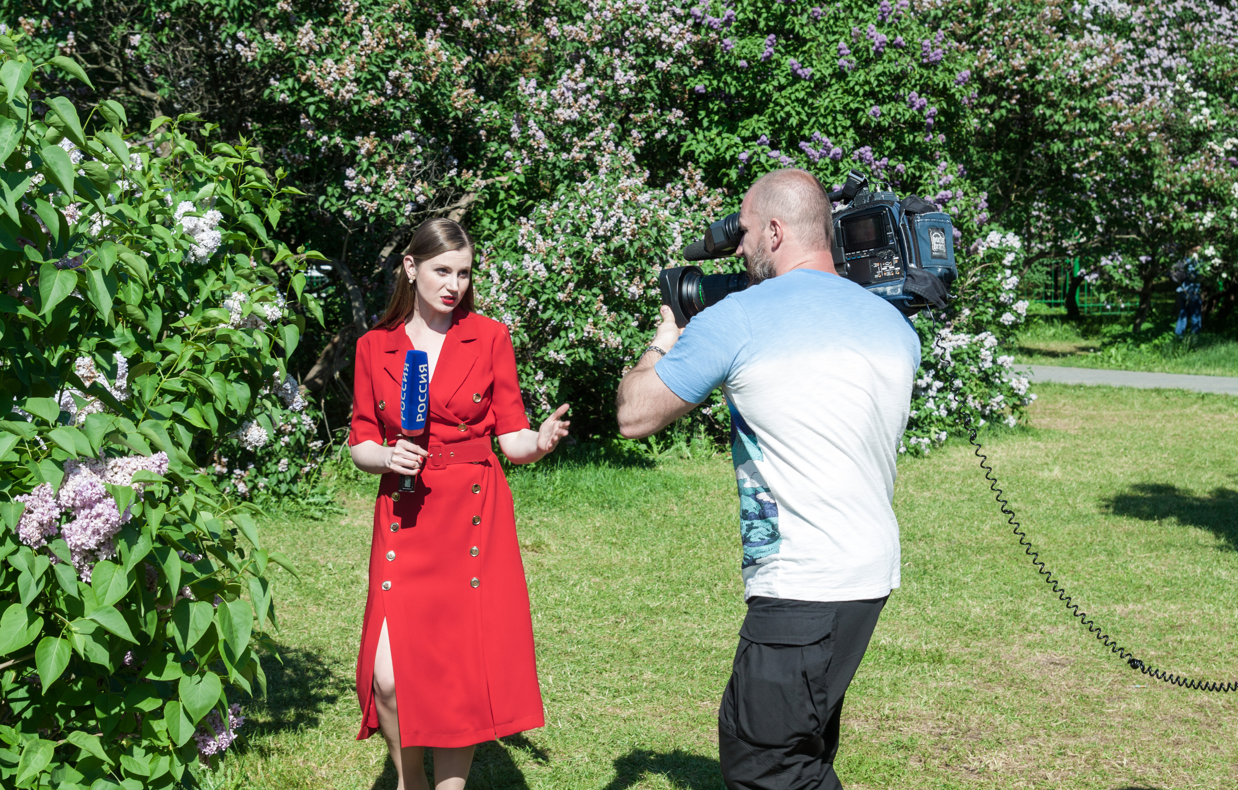 Anna Scherbakova from VGTRK company prepares a television reportage. Moscow, Shchyolkovskoye highway, Lilac garden.